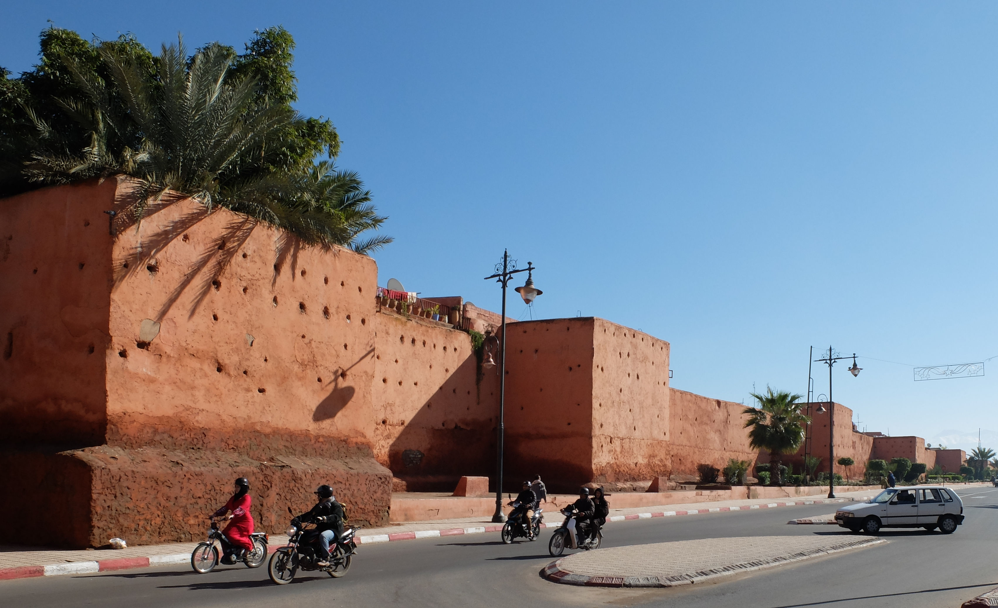 The walls of the kasbah of Marrakesh, just south of Bab Agnaou.